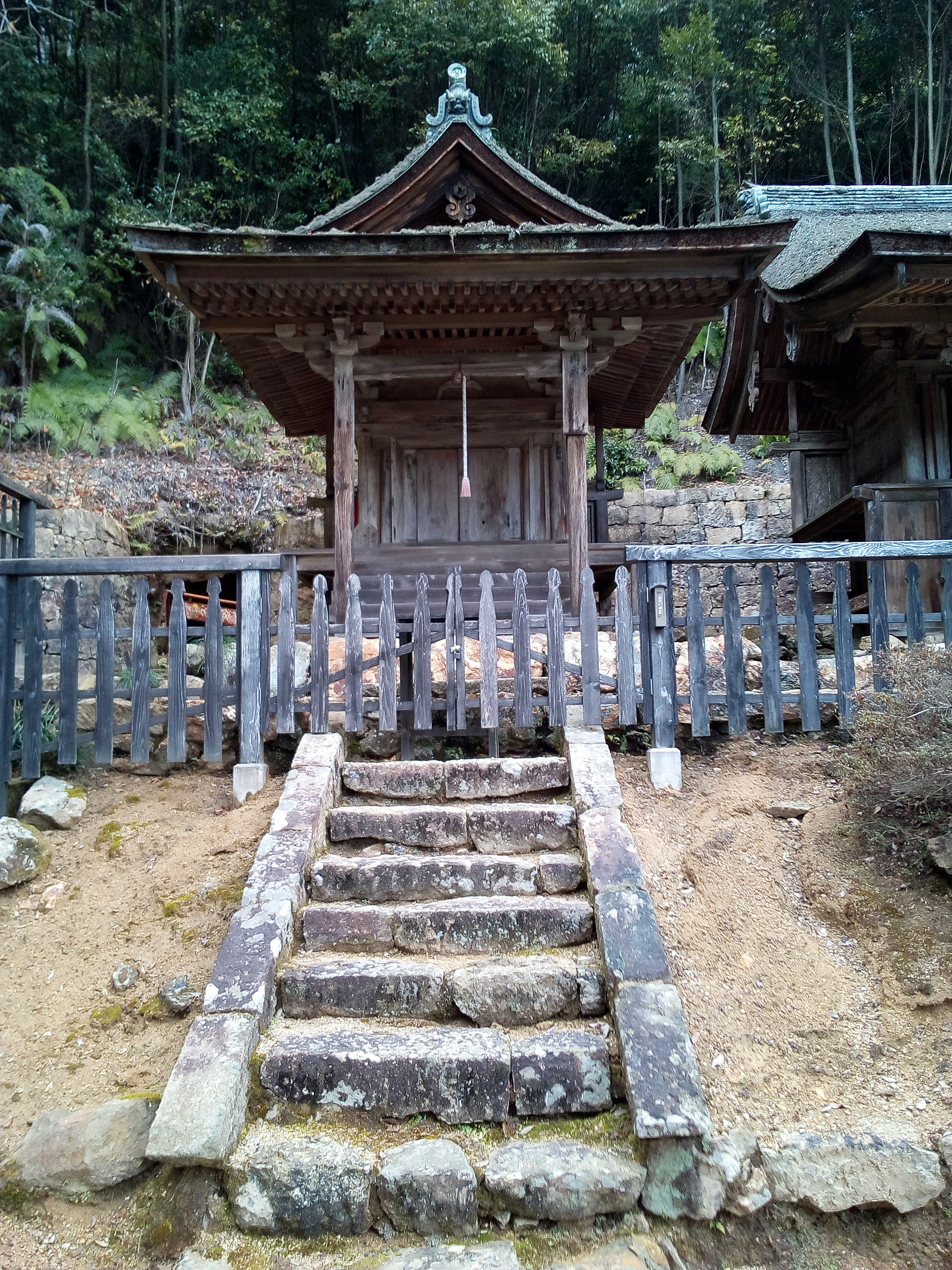 The Bentendō at Ichijō-ji, dating from 1393-1466.